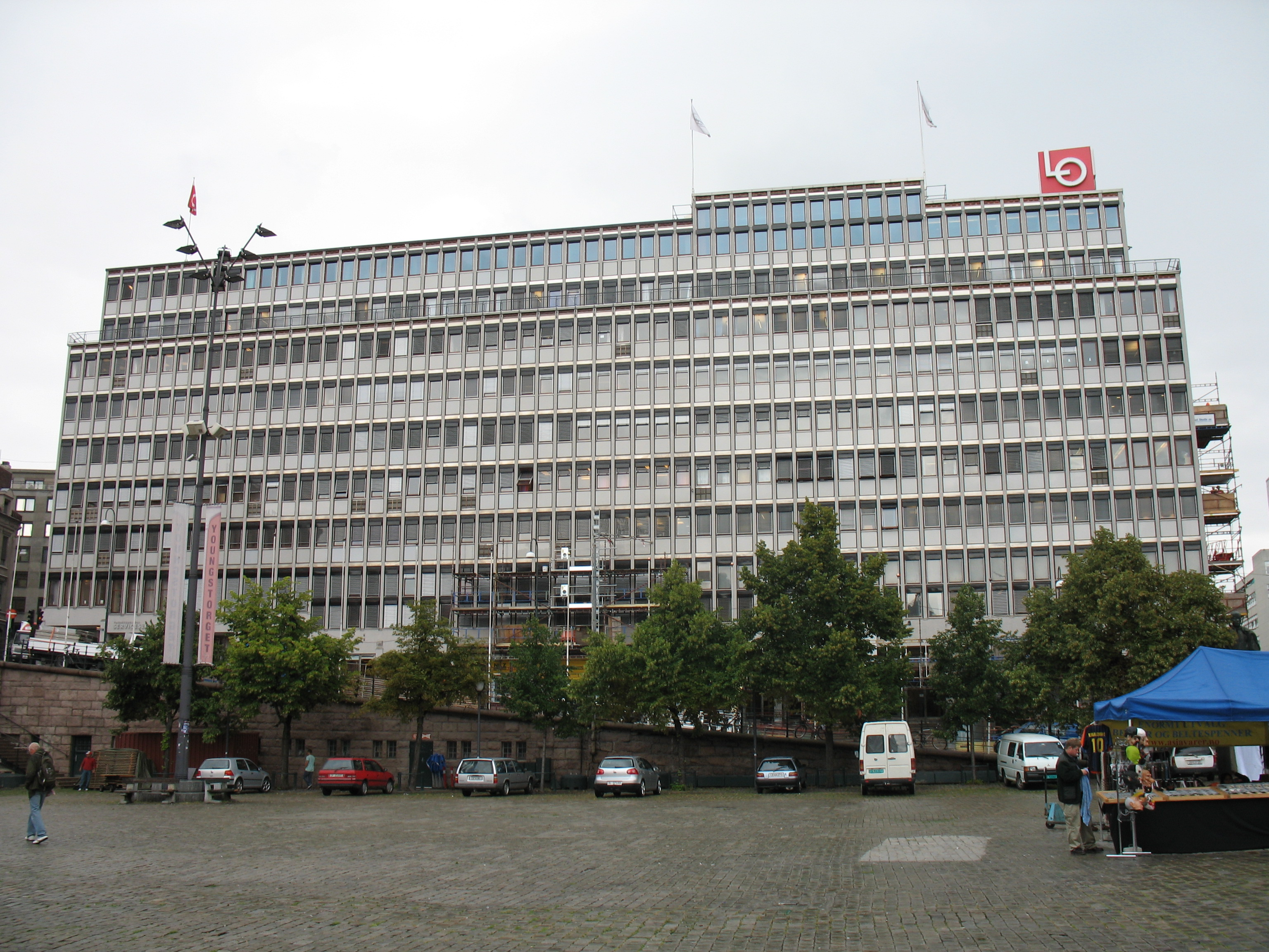 “The People's House”, Youngstorget in Oslo, Norway. The buildning is the HQ of the Norwegian Confederation of Trade Unions.